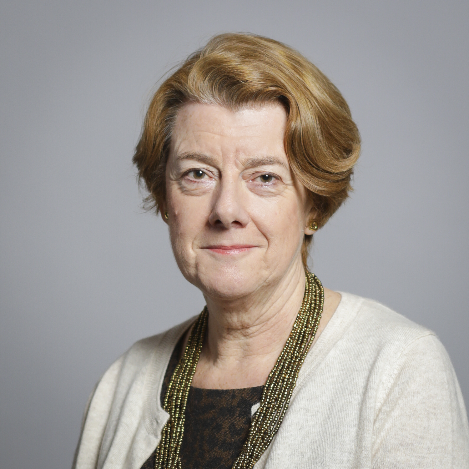 Official portrait of Baroness Morgan of Huyton 1×1 portrait of Baroness Morgan of Huyton